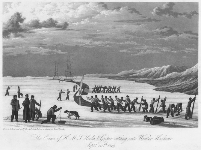 "The Crews of H.M.S. Hecla & Griper Cutting Into Winter Harbour, Sept. 26th, 1819,” Journal of a Voyage for the Discovery of a North-West Passage from the Atlantic to the Pacific: Performed in the Years, 1819-20, in His Majesty’s Ships Hecla and Griper, Under the Orders of William Edward Parry; With an Appendix Containing the Scientific and Other Observations, 1821, From The Library at The Mariners’ Museum, G650.1819.P2 rare."